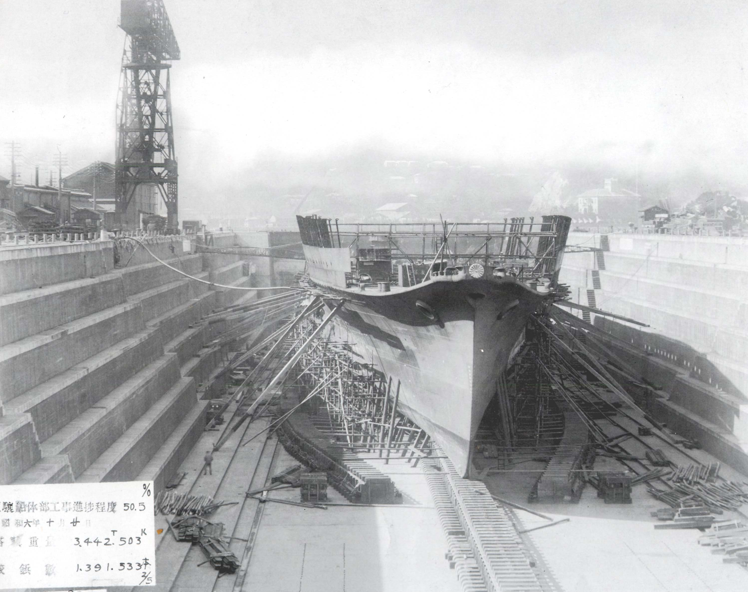 Light aircraft carrier Ryujo under construction in Yokosuka arsenal nr. 5 dock.